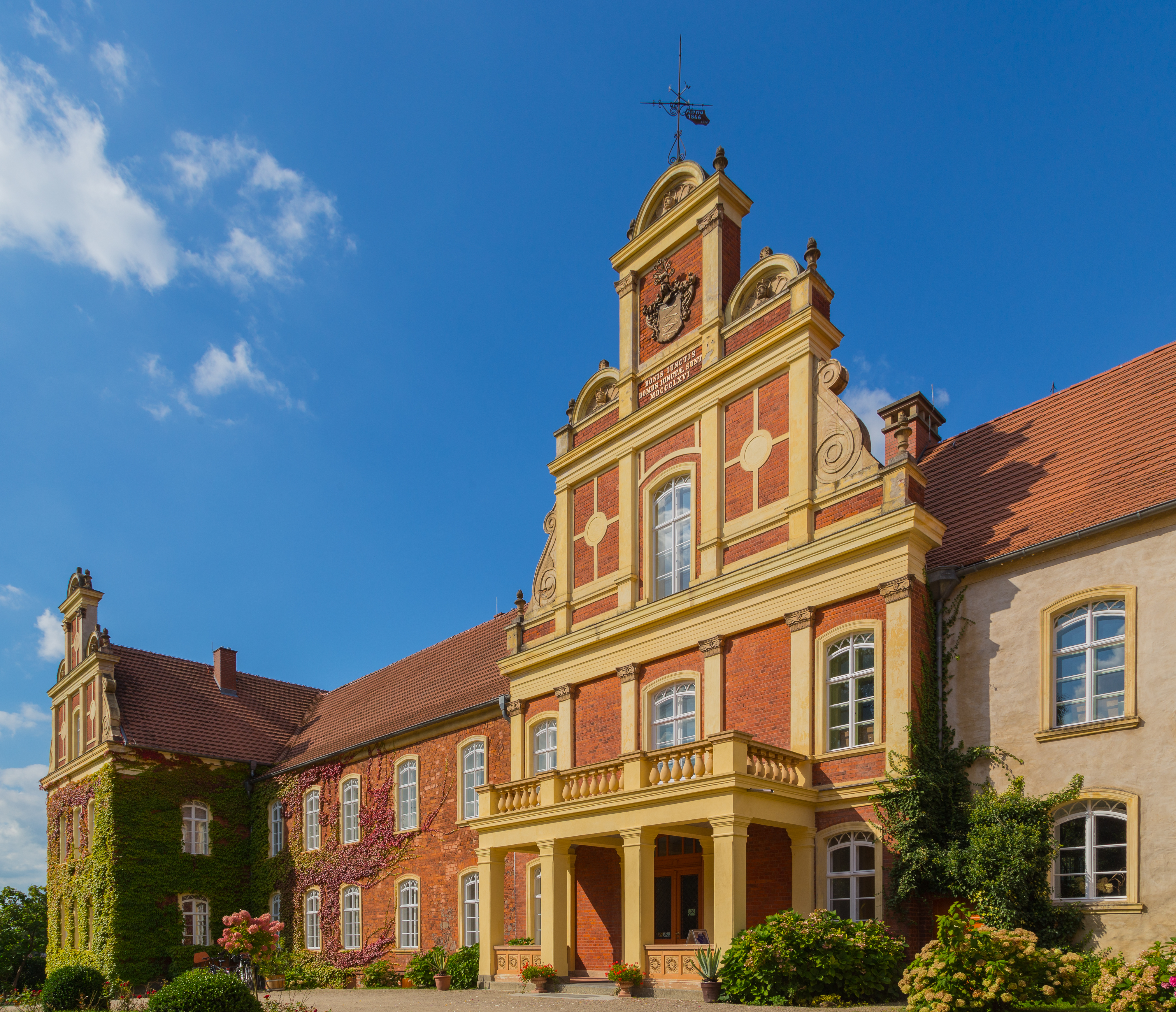 Meyenburg Castle (Schloss Meyenburg) in Meyenburg, Landkreis Prignitz, Brandenburg, Germany.